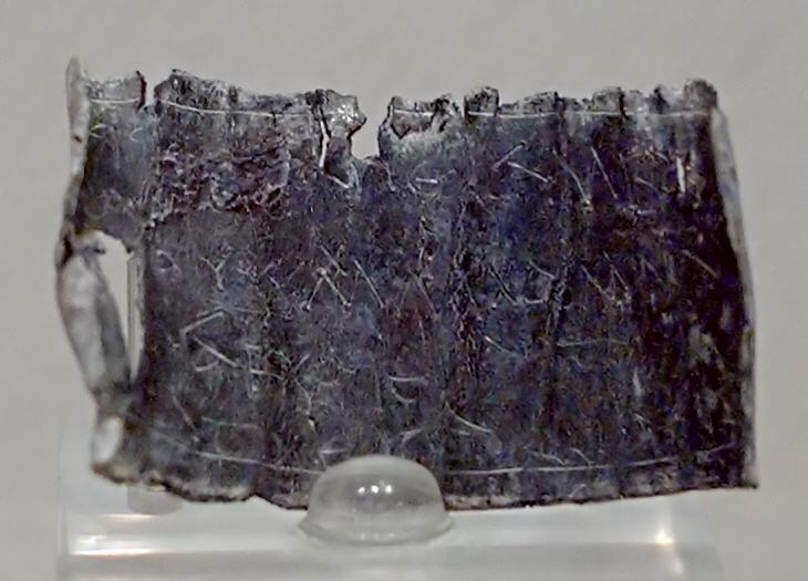 Defixio tabella with an opisthographic curse in Greek against Kardelos. Lead, 4th century CE. From the Columbarium of the Villa Doria Pamphilj in Rome.